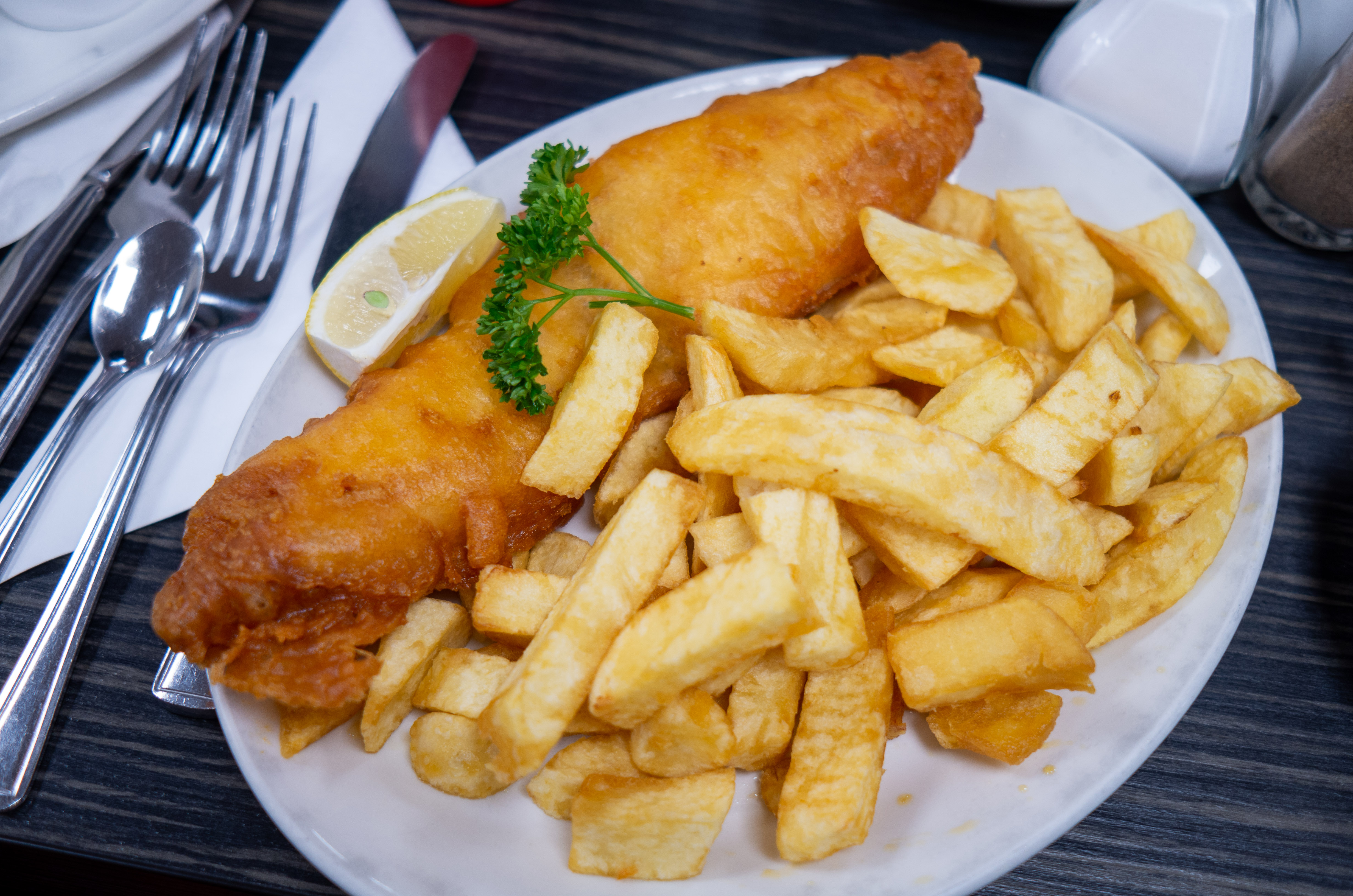 Fish and Chips, photo taken in November 2018 in Blackpool